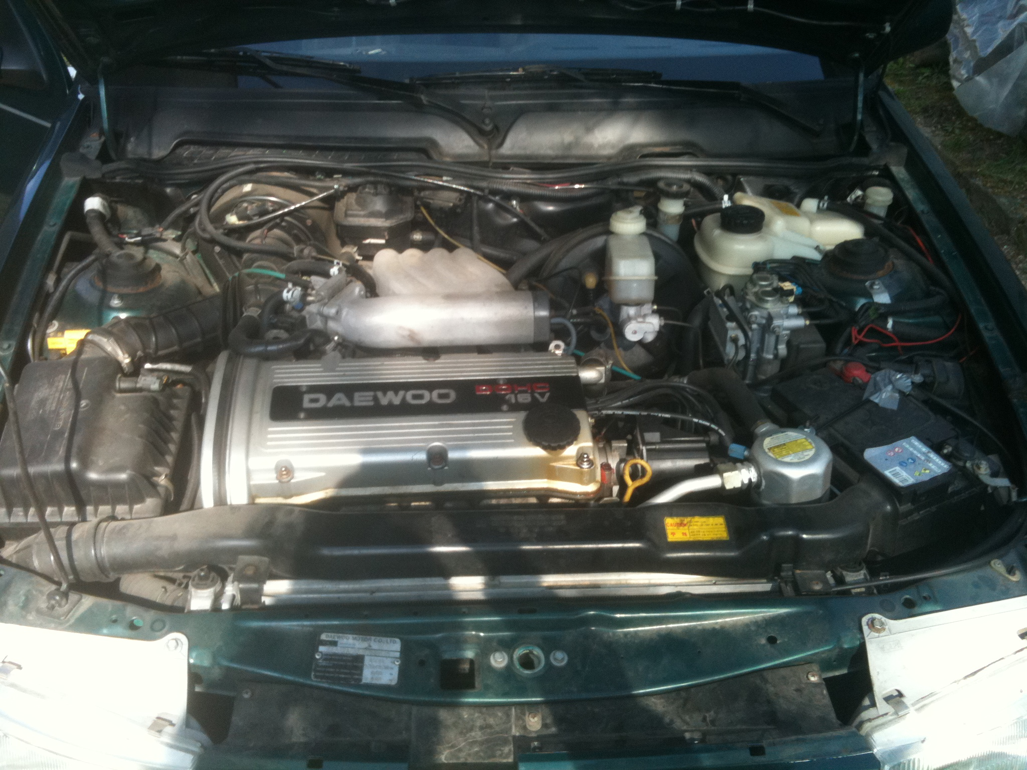 Original Korean DOHC engine from Nexia. Uzbek Nexia have different type of DOHC engine